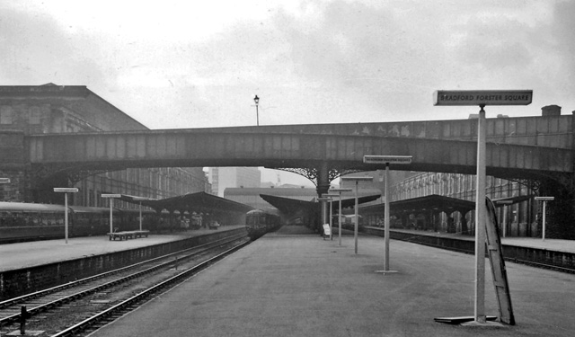 Bradford Forster Square Station. View southward, towards buffer-stops. Ex-Midland Rly. terminus (from Shipley) of trains from Leeds (City), Skipton and main line from Hellifield and Carlisle/Morecambe/Heysham, also locals from Ilkley. The station was rebuilt in 1990 (slightly to the north, i.e. approximately where I was standing) and the local lines were electrified in 1994. In 1961 the local services were already being operated with DMUs.